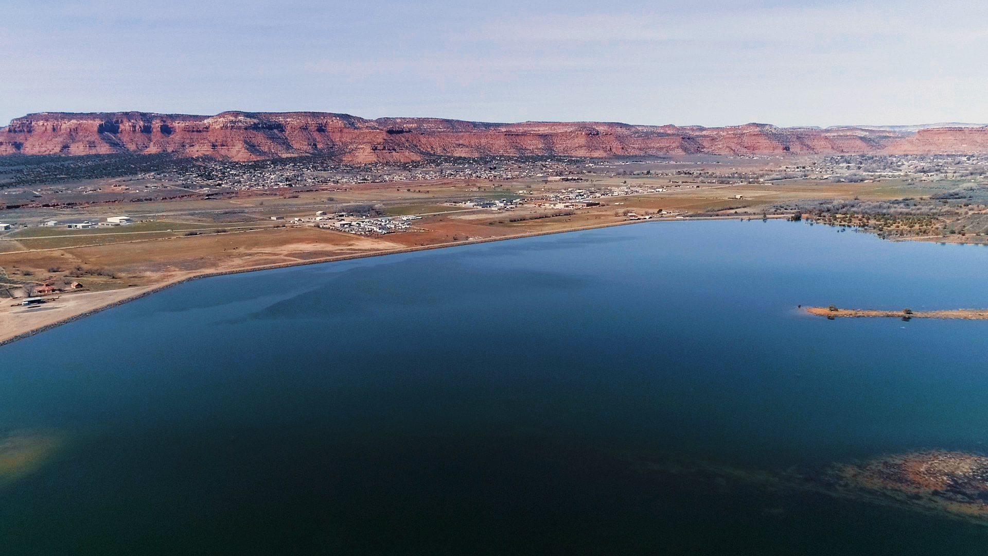 Aerial photo of the Jackson Flat Reservoir in Kanab Utah.